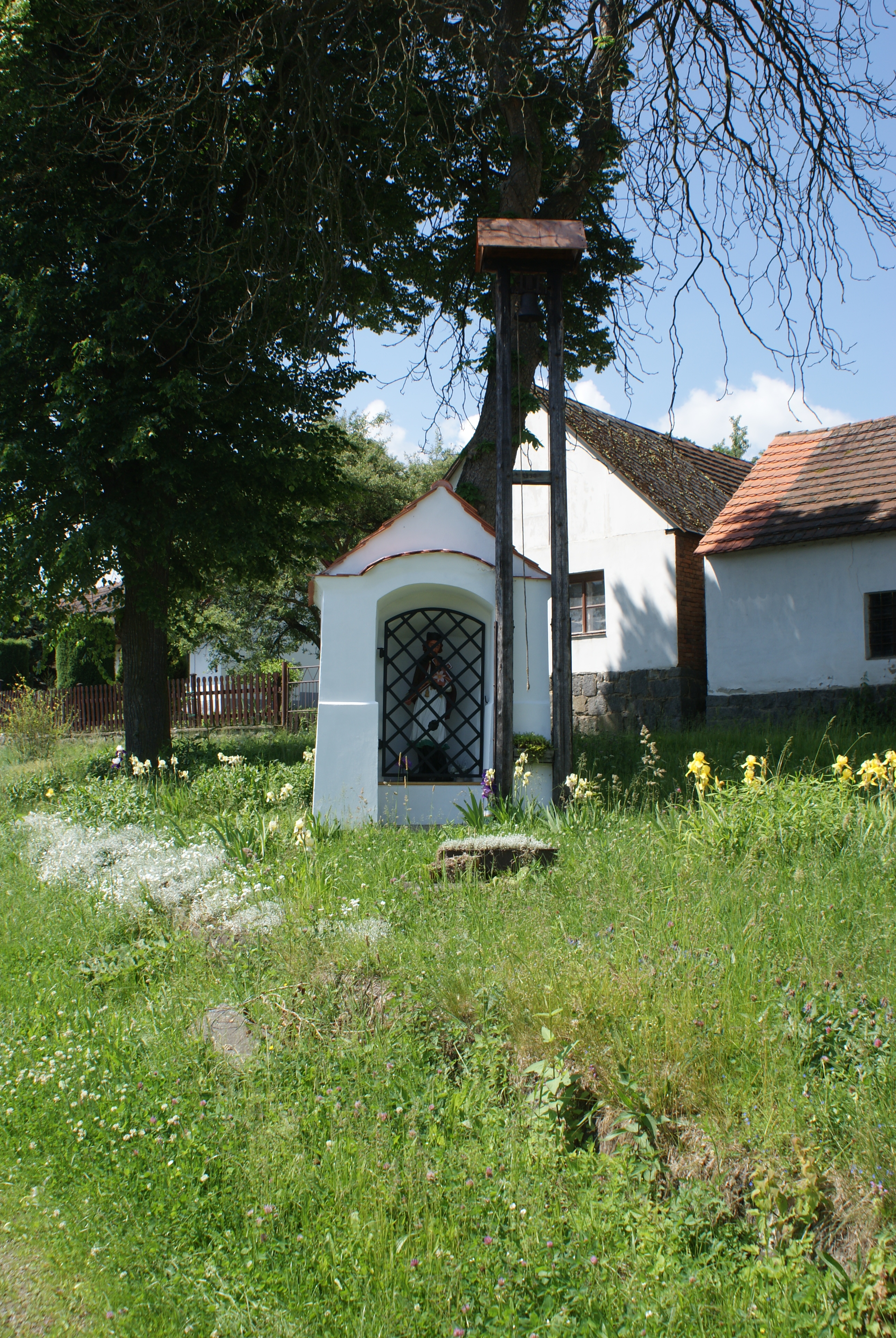 Vojnice, part of Volenice, a village in Strakonice district, Czech Republic, a chapel on the village common.